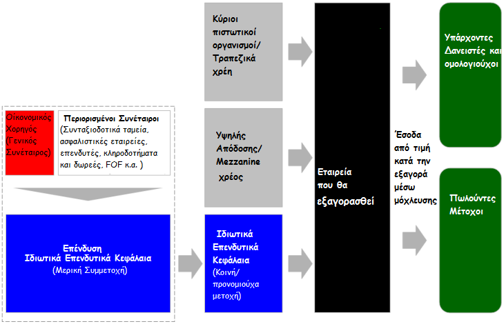 Diagram of private equity fund structure for Private equity, Private equity fund, Private equity firm